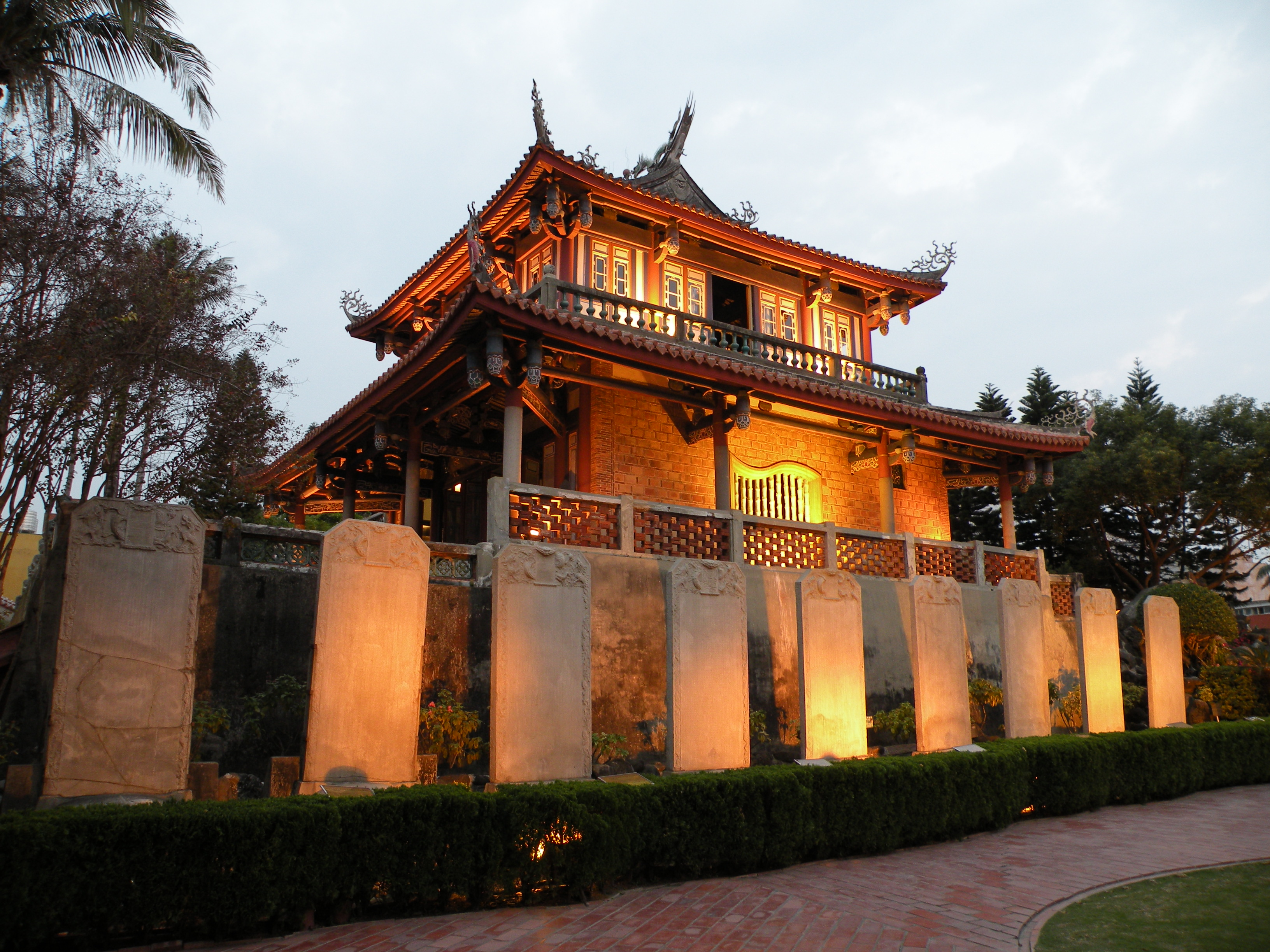 Chihkan Tower(赤崁樓) in Tainan, Taiwan Bân-lâm-gú: Tī Tâi-uân Tâi-lâm ê Tshiah-khàm-lâu. 佇台灣台南的赤崁樓。